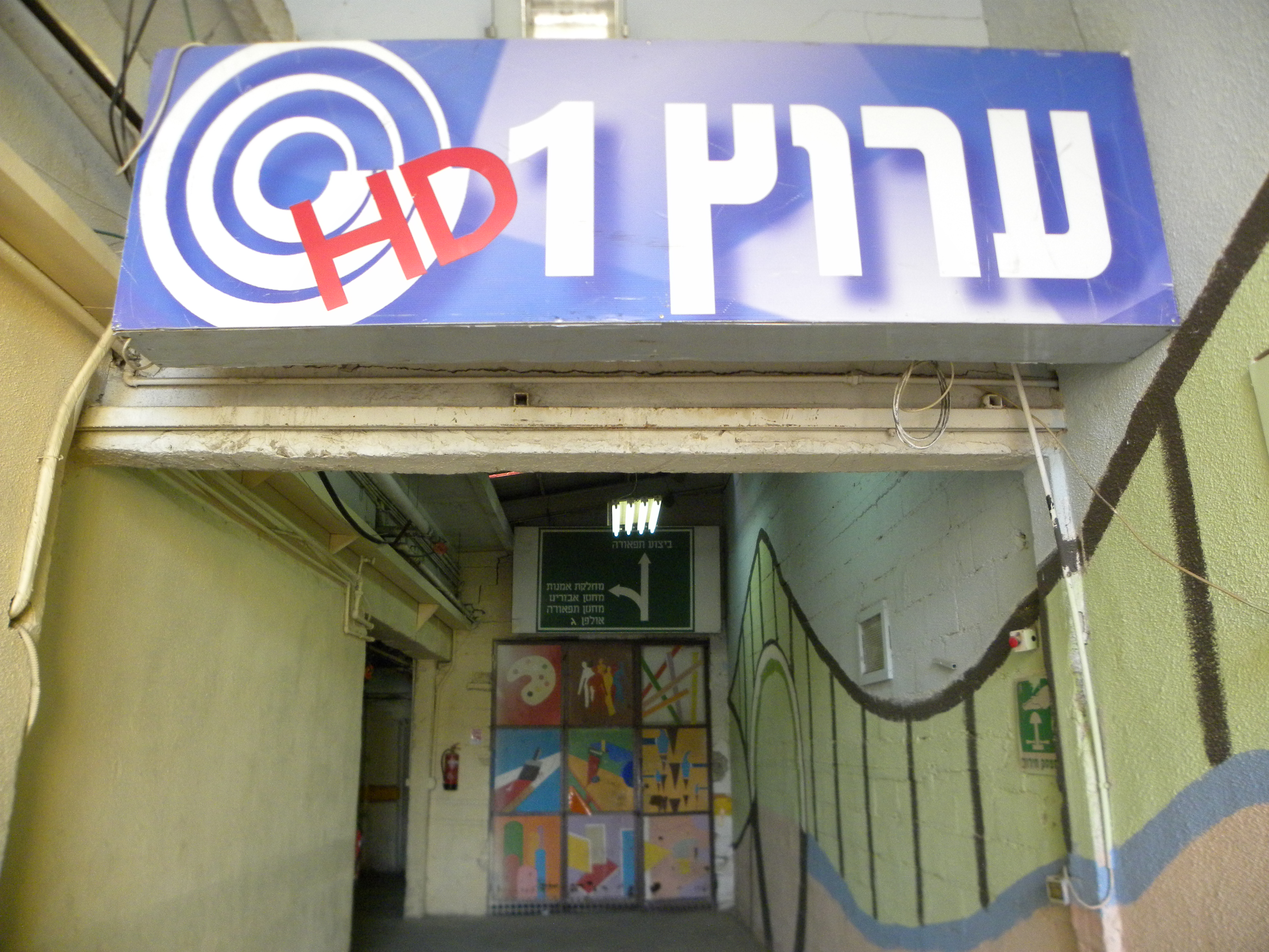 Israel Broadcating Authority Channel 1, in Romena, Jerusalem